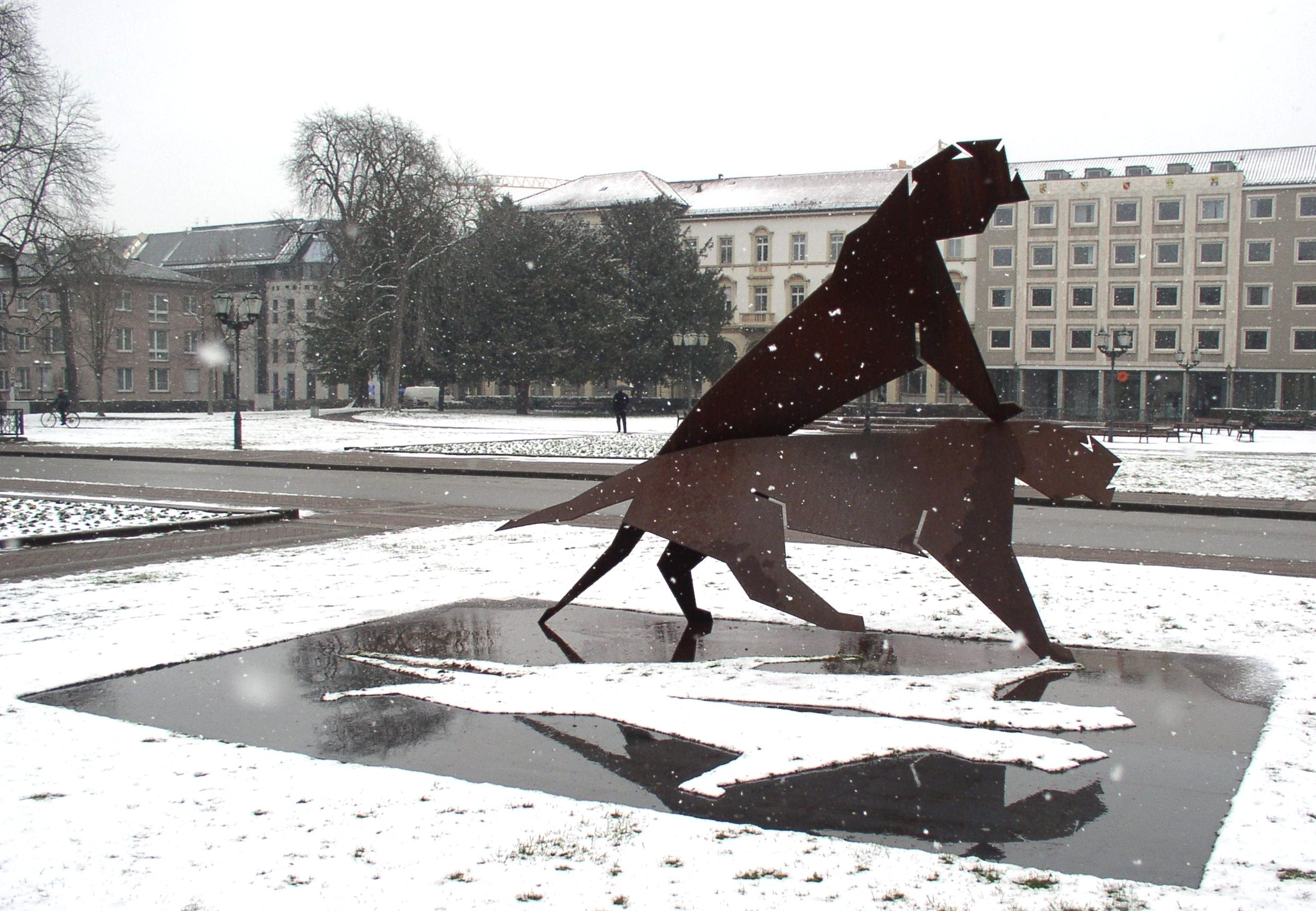 Sculpture "Springende Panther" (1995) by Andreas Helmling in Karlsruhe/Germany